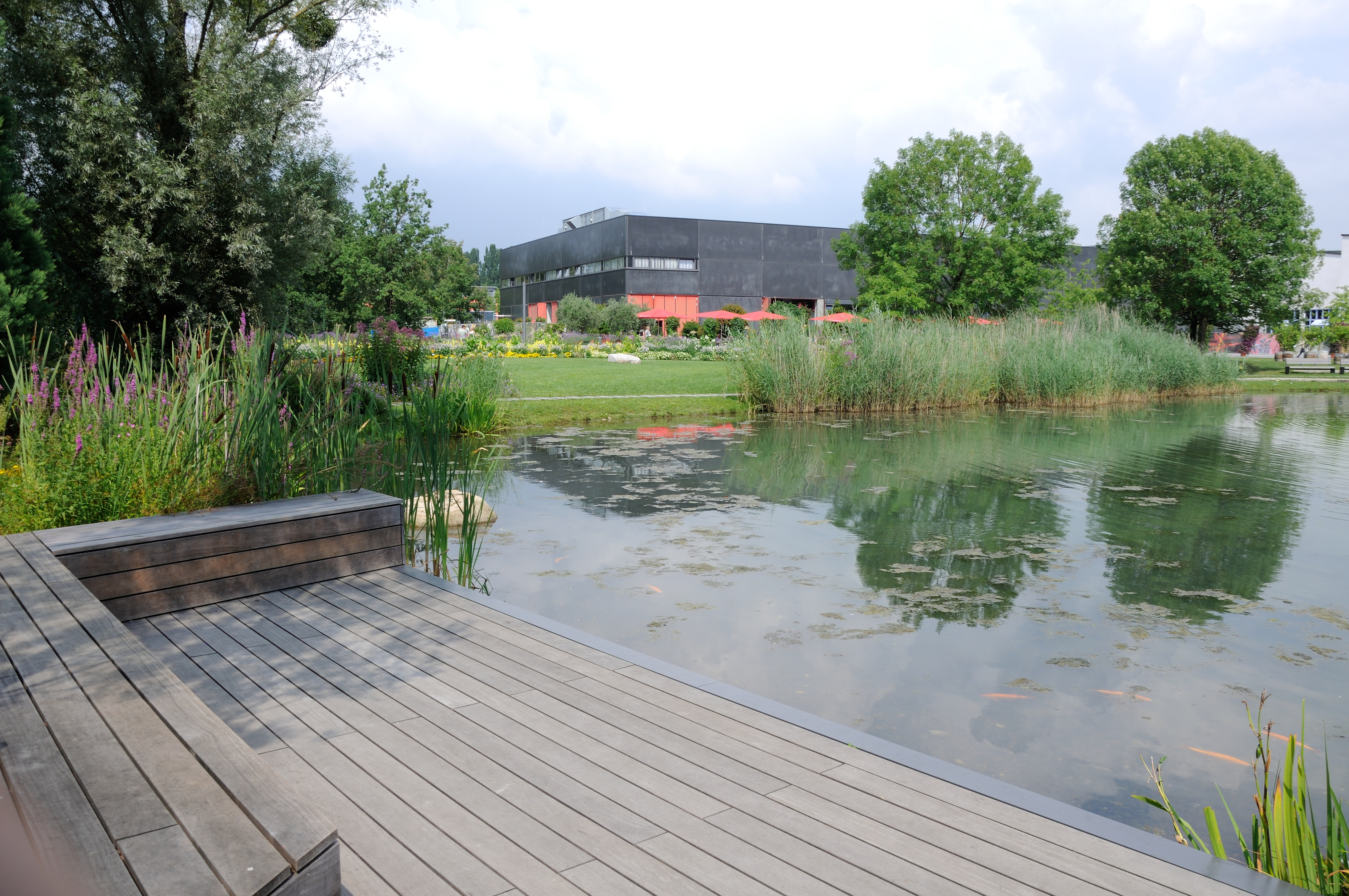 Germany, Bavaria, impressions from the Landesgartenschau in Deggendorf